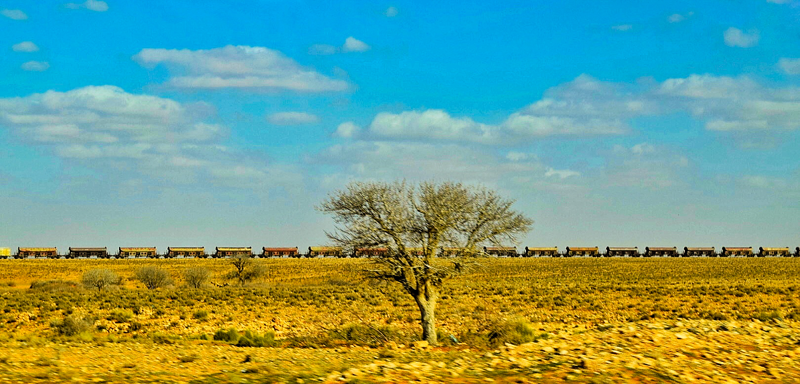 In this photo, we can see a freight train that carries metals, they are transported from Bouarfa (east- south) to Oujda (east), the distance is 263km, and the trip took about 8 hours This is an image with the theme "Africa on the Move or Transport" from: Morocco